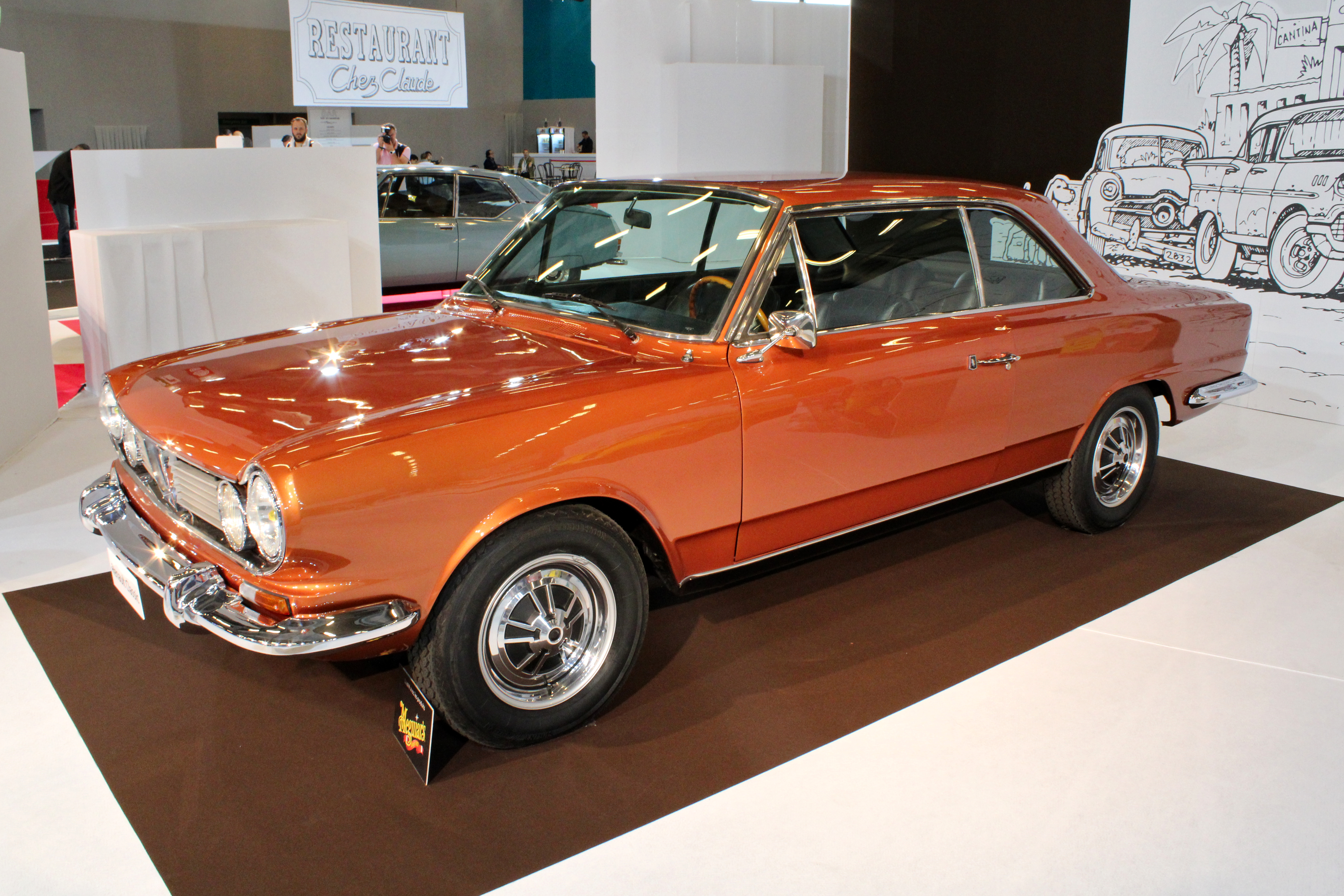 Renault Torino (1972) at Paris Motor Show 2018